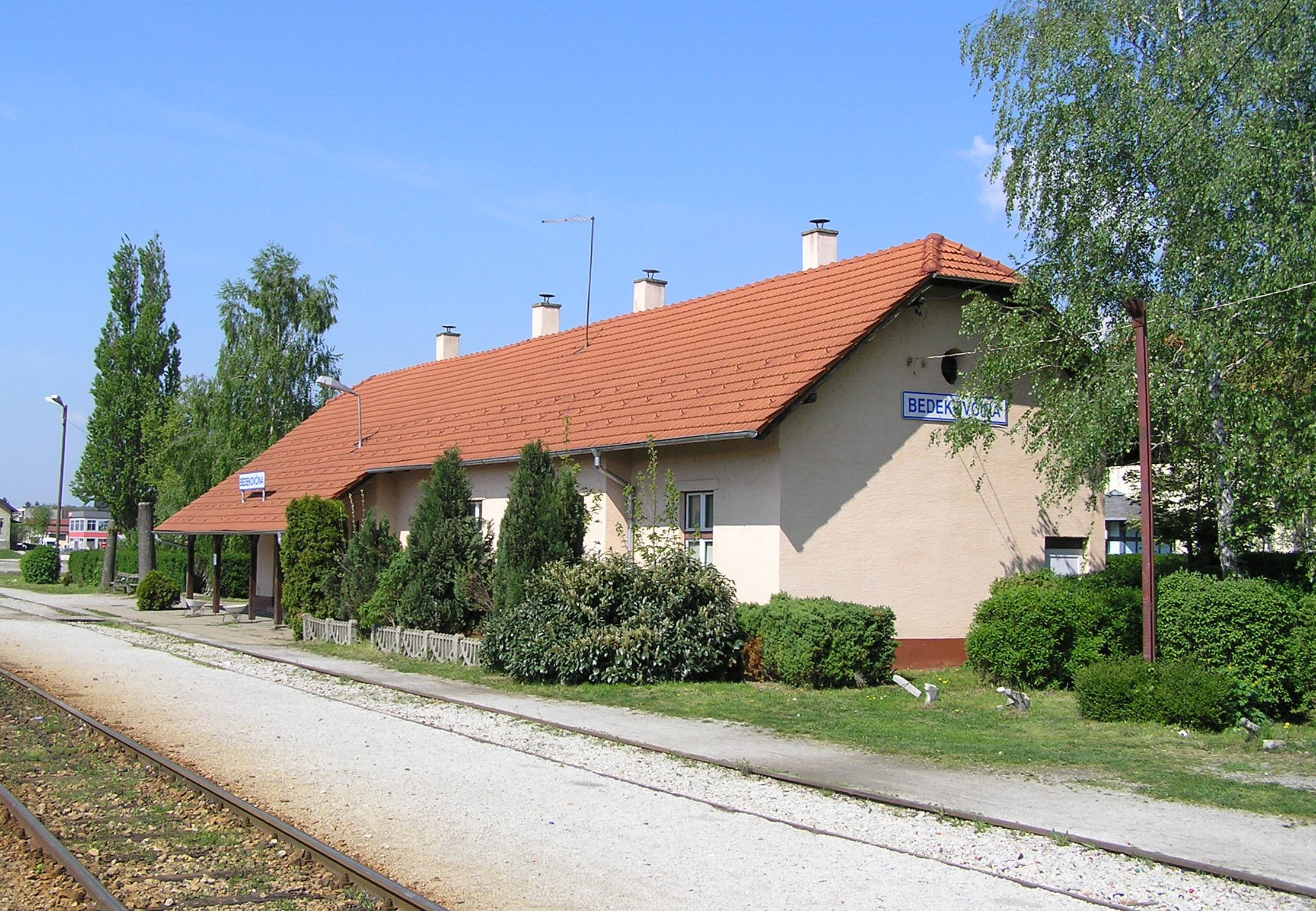 Bedekovčina Railway Station, Croatia